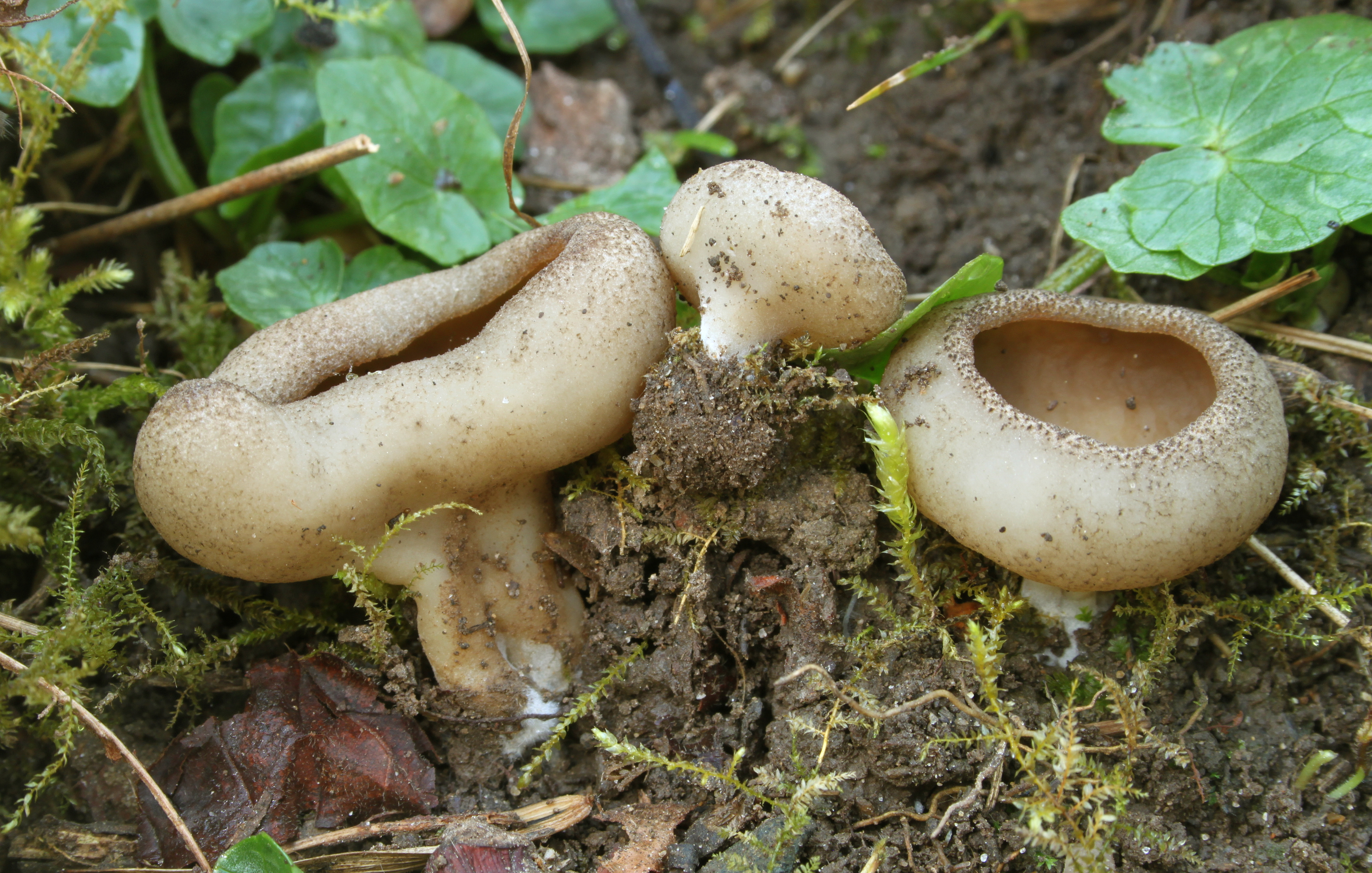 Veiny Cup Fungus or the Cup Morel, Disciotis venosa, Family: Morchellaceae, Location: Germany, Erbach, Ersingen